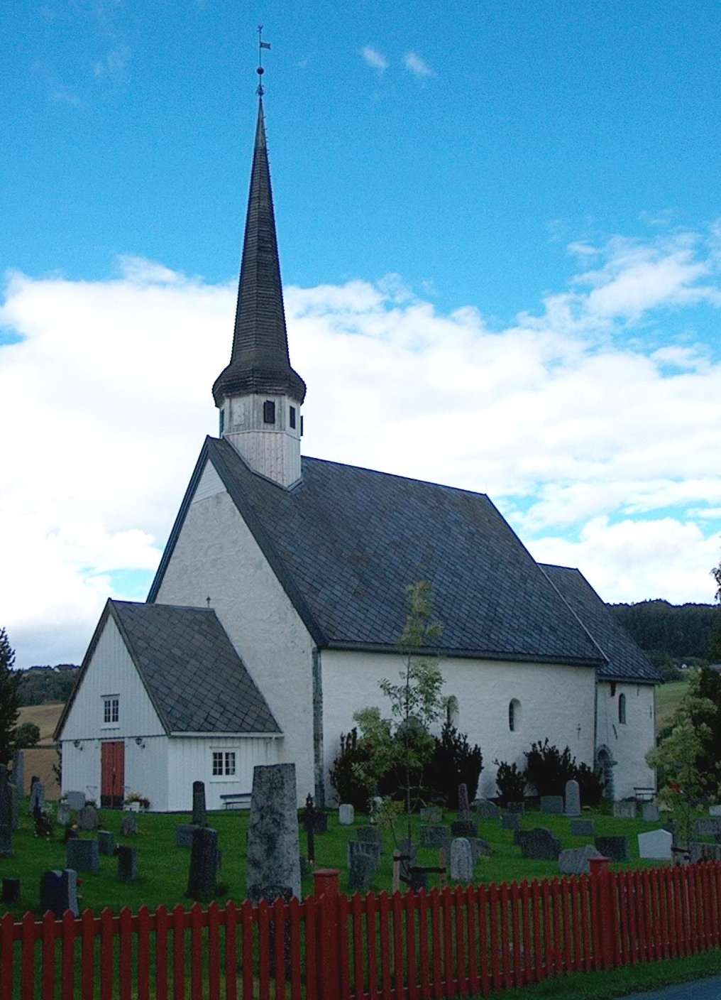 Skaun church in Skaun municipality, Sør-Trøndelag county, Norway. Built in the 12th century.